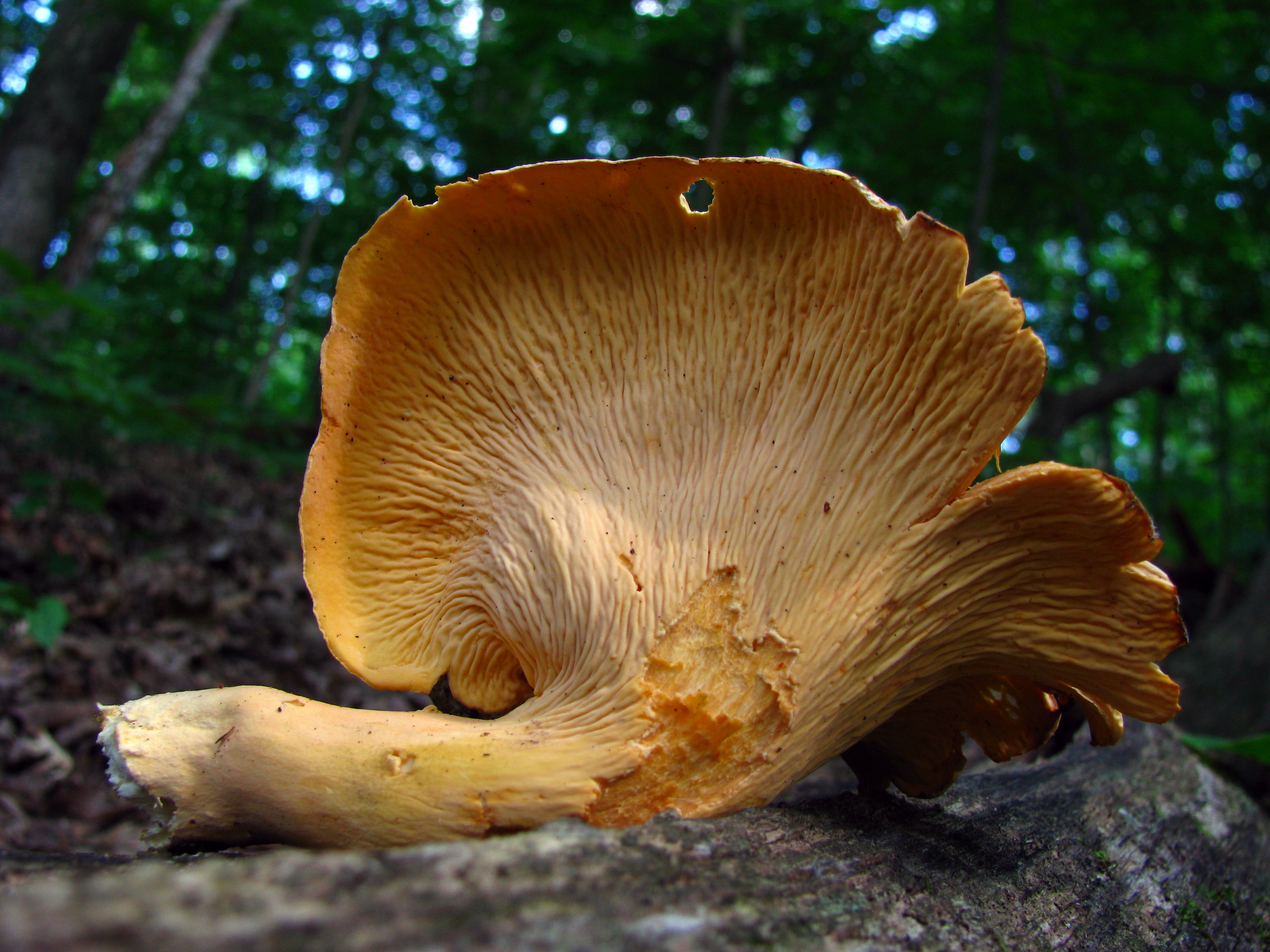 The mushroom Cantharellus lateritius (Berk.) Singer. Photographed in Strouds Run State Park, Athens, Ohio, USA.